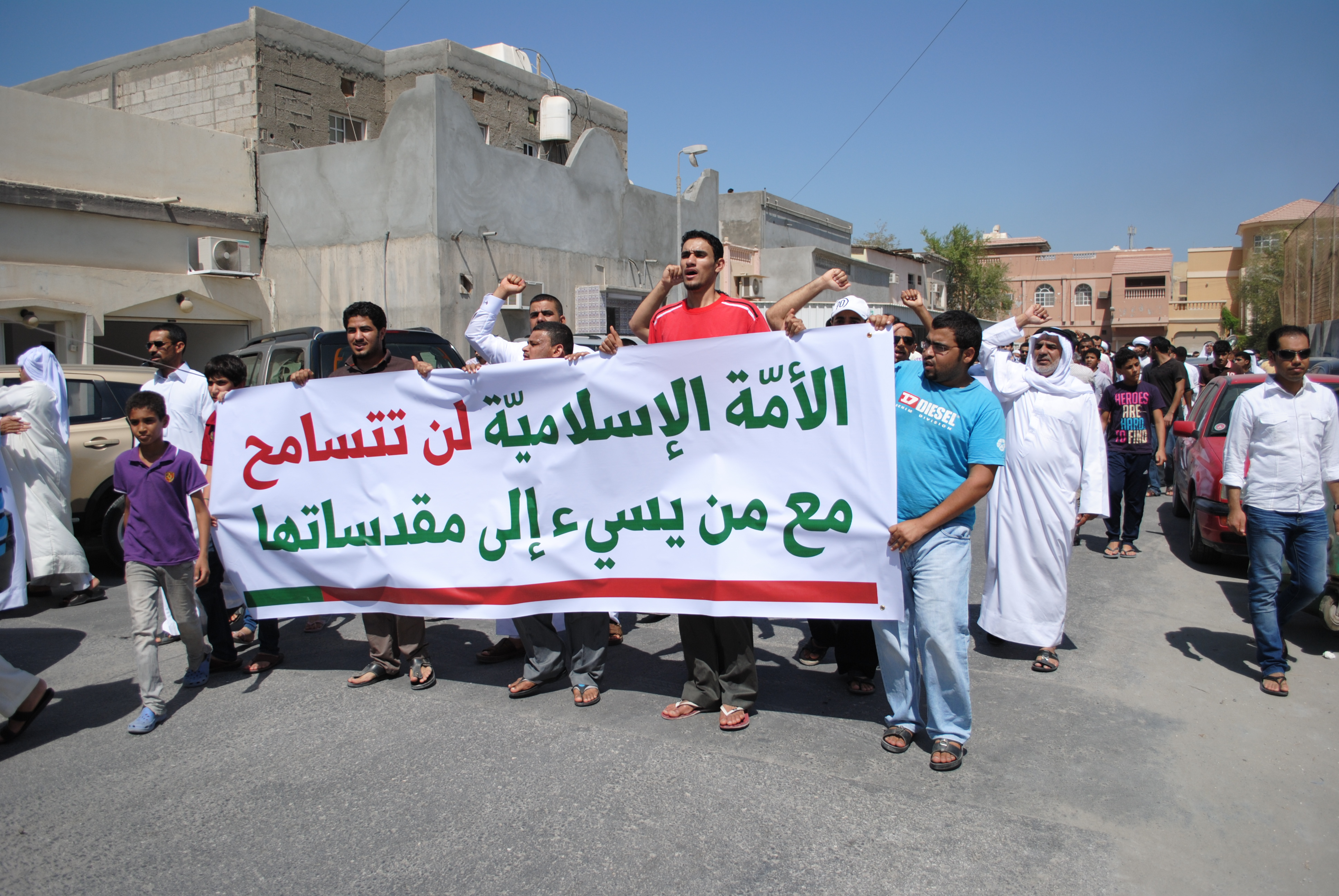 A protest in Duraz, Bahrain against an anti-Islamic film. The banner (in Arabic) reads: "The Islamic nation will not tolerate with those who offend its sanctities"